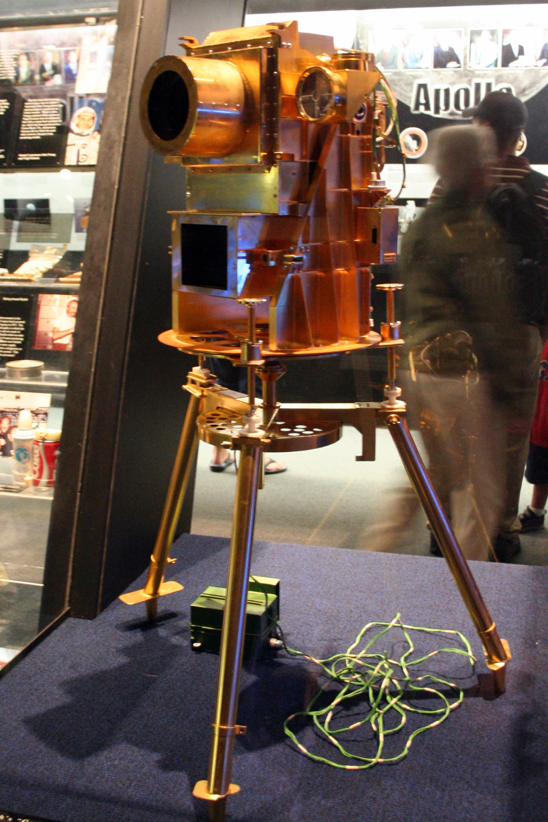 Far Ultraviolet Camera Spectrograph